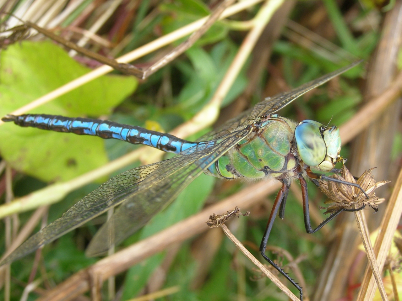 This is a male - it has a blue and black abdomen ('tail'). In females the abdomen is green and brown. It had just finished devouring some sort of bug, the back end of which disappeared into its mouth as I was watching. Photo taken beside the top lake, Reading University grounds, Reading, UK, on 2007-08-24.